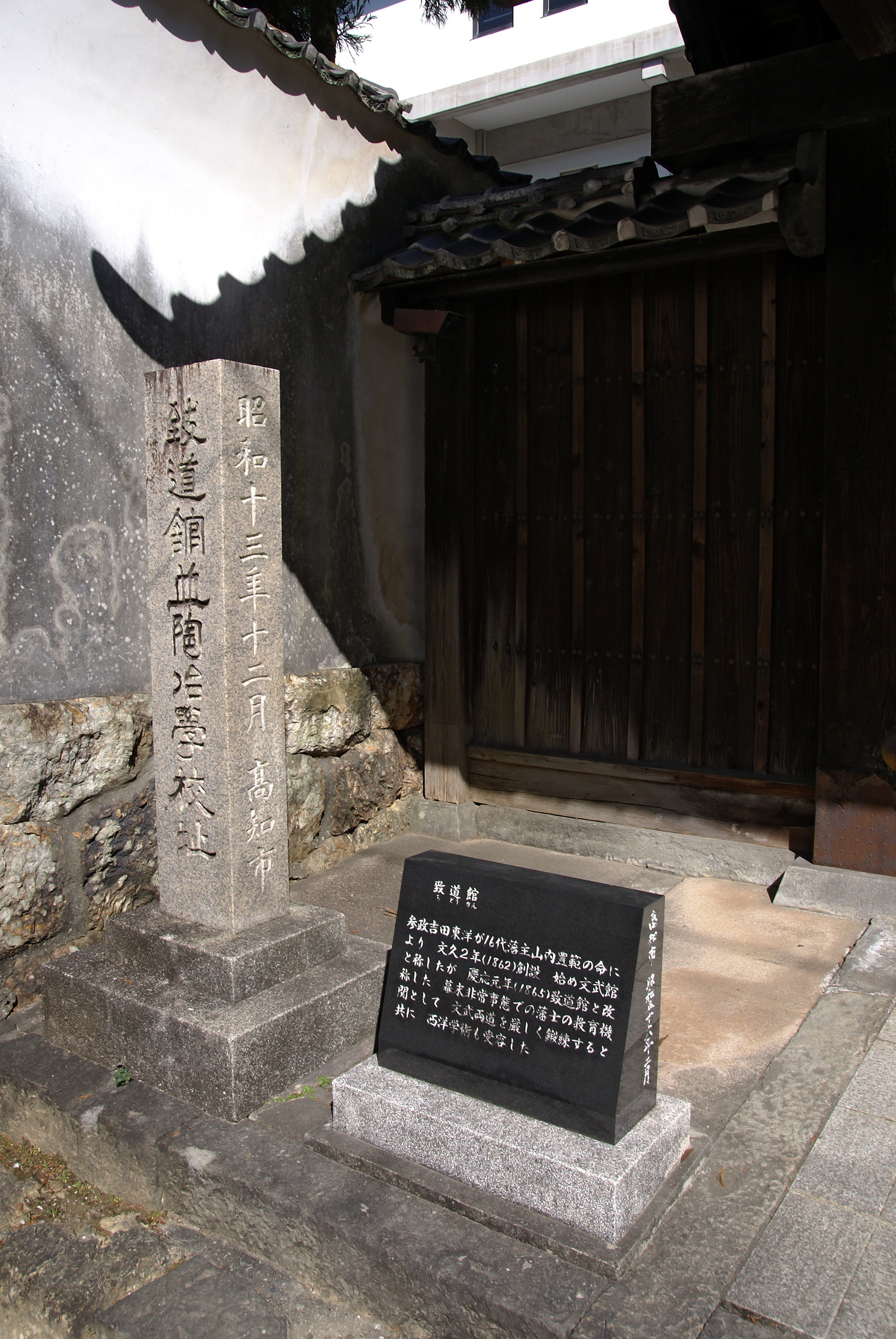 Kochi Prefectural Budokan in Kochi, Kochi prefecture, Japan